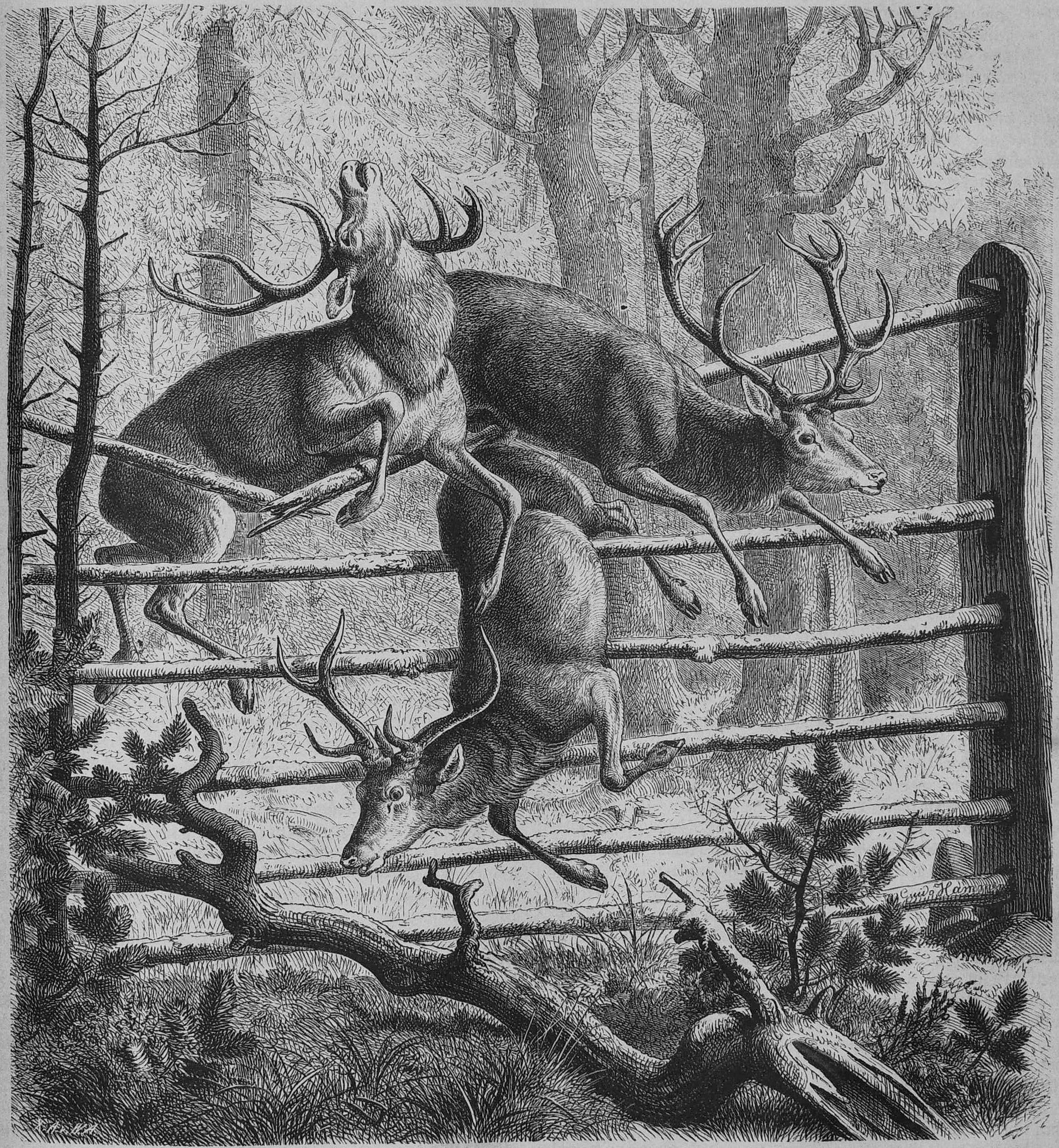 caption: "Fliehende Hirsche. Nach der Natur aufgenommen von Guido Hammer."